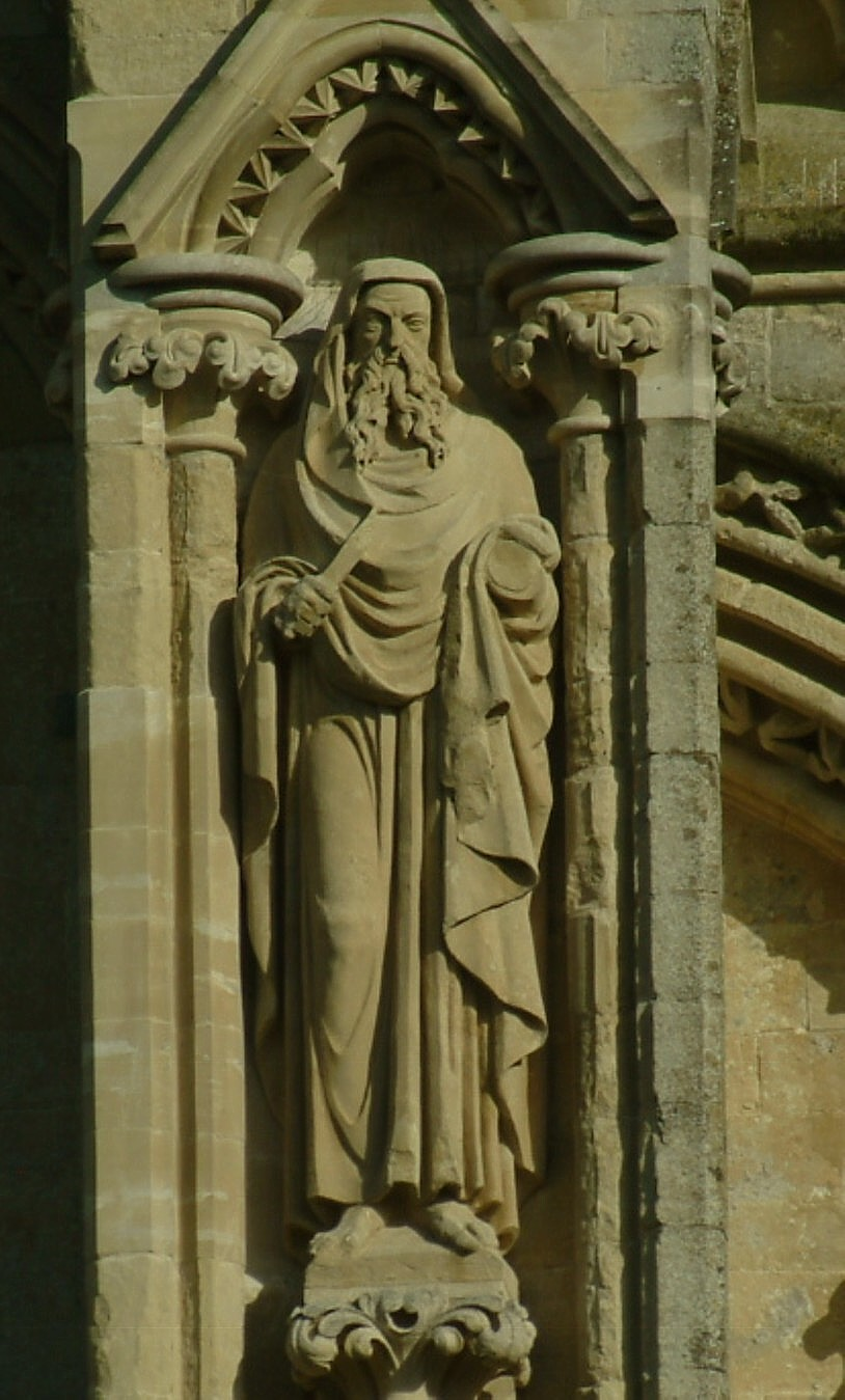 Statue of Abraham on the West Front of Salisbury Cathedral, UK.